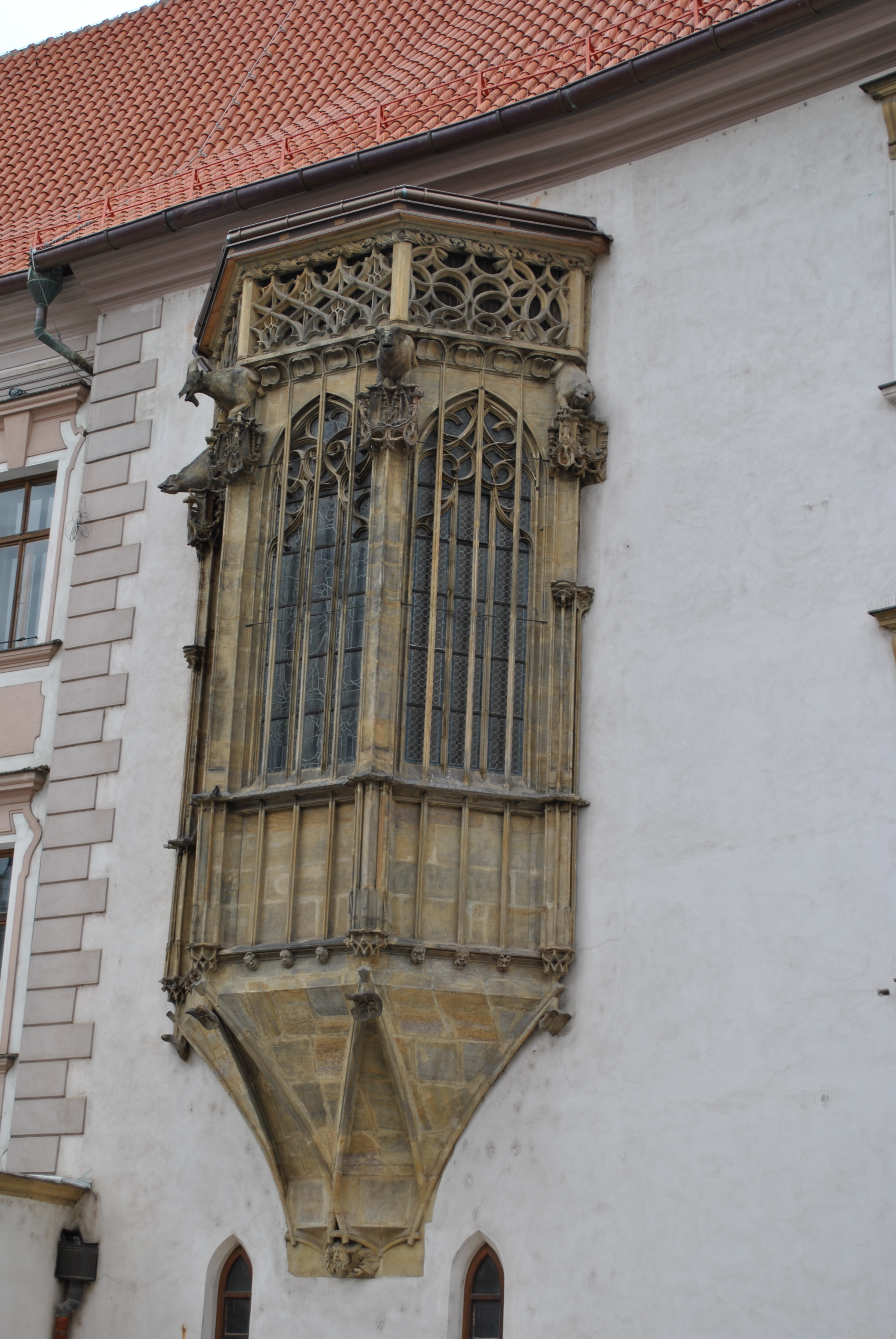 pozdně gotický arkýř